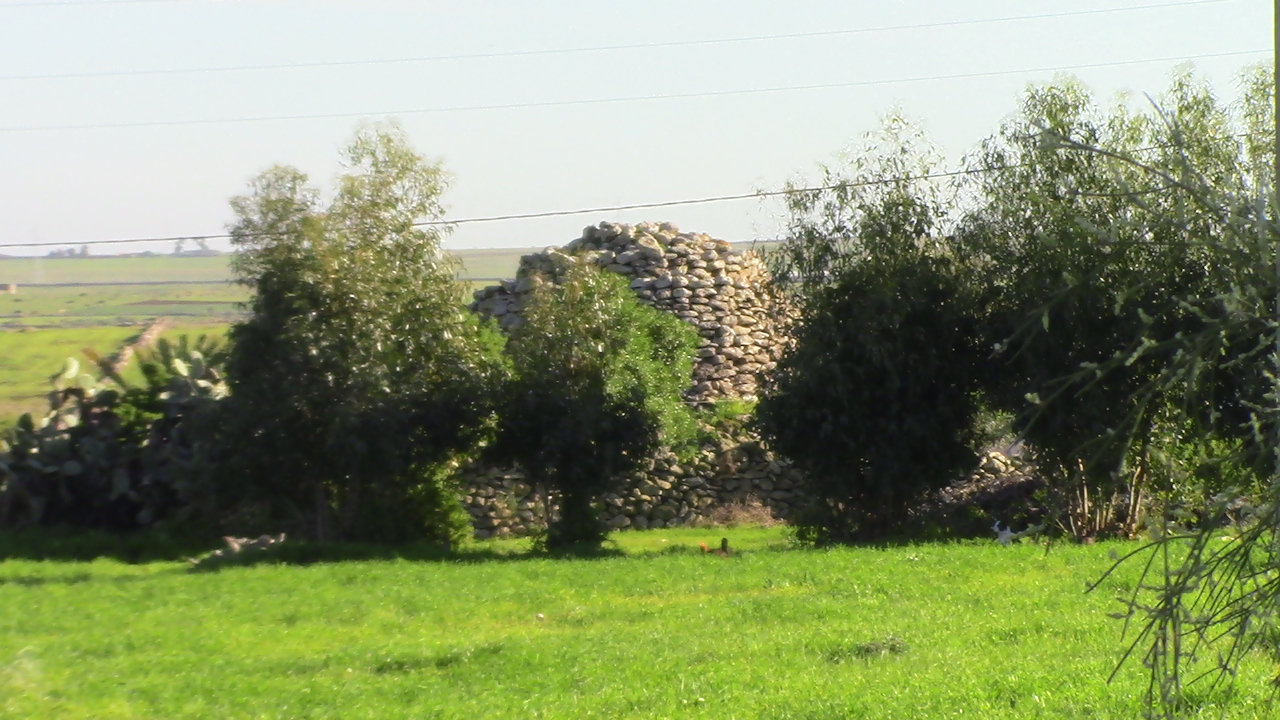 A Tazota, area of Sidi Abed and Awlad Aissa, Province of el-Jadida, Morocco